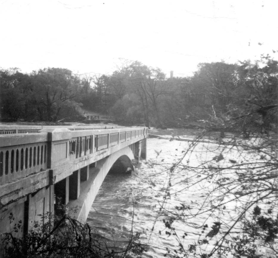 St. Phillips Road connects Weston Road to Scarlett Road north of Lawrence. On the other side of the Humber River is the entrance to Weston Golf Club. The point from which this picture was taken was about 10 ft below the high water mark of the flood during Hurricane Hazel, so this bridge had been completely underwater by at least 10 ft.